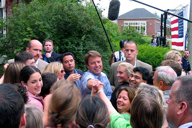 John Edwards shakes hands with supporters after speaking at a University of Maine campaign stop in Orono, Maine.